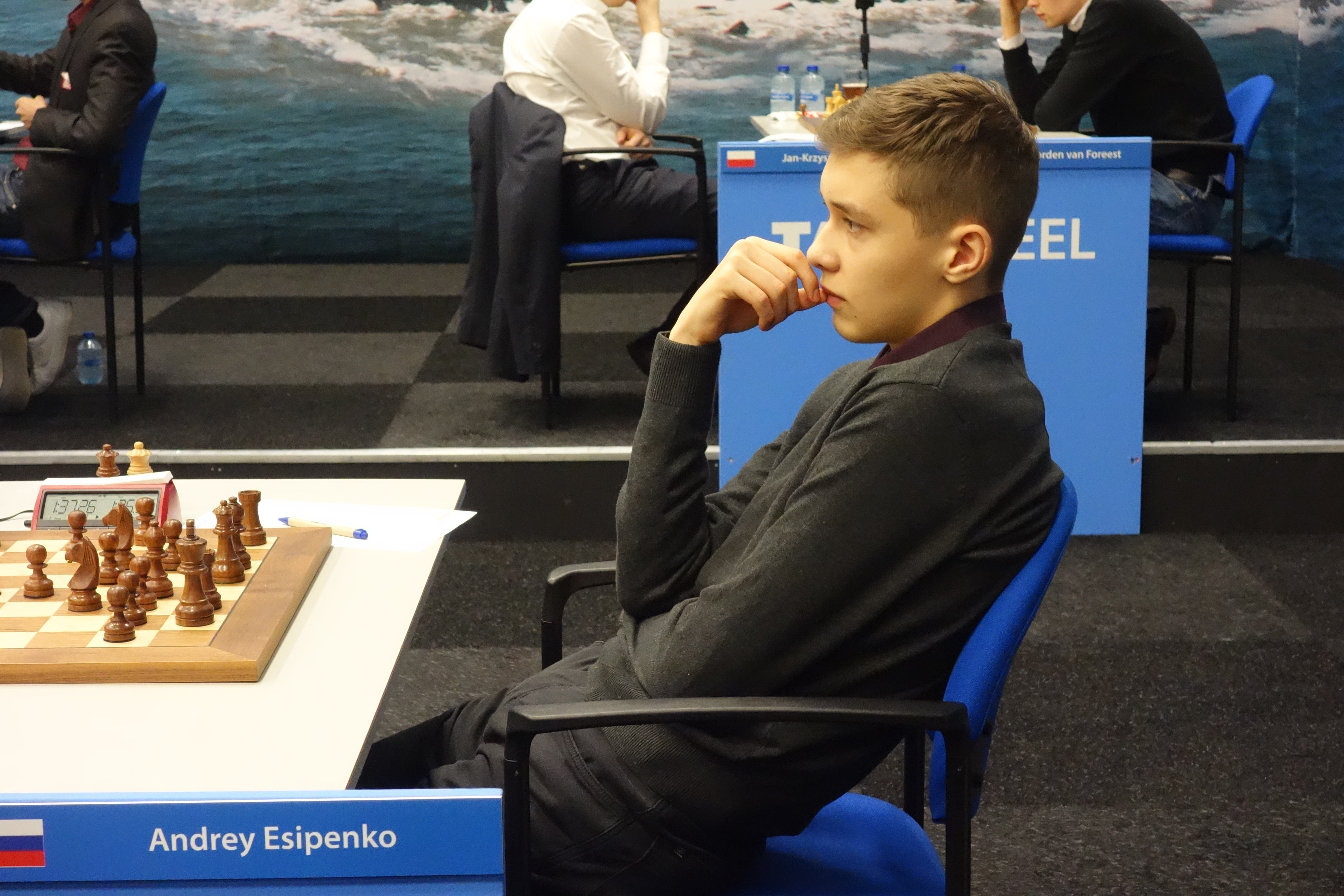 Tata Steel Chess Tournament 2019, Wijk aan Zee (the Netherlands), 13 Jan. 2019